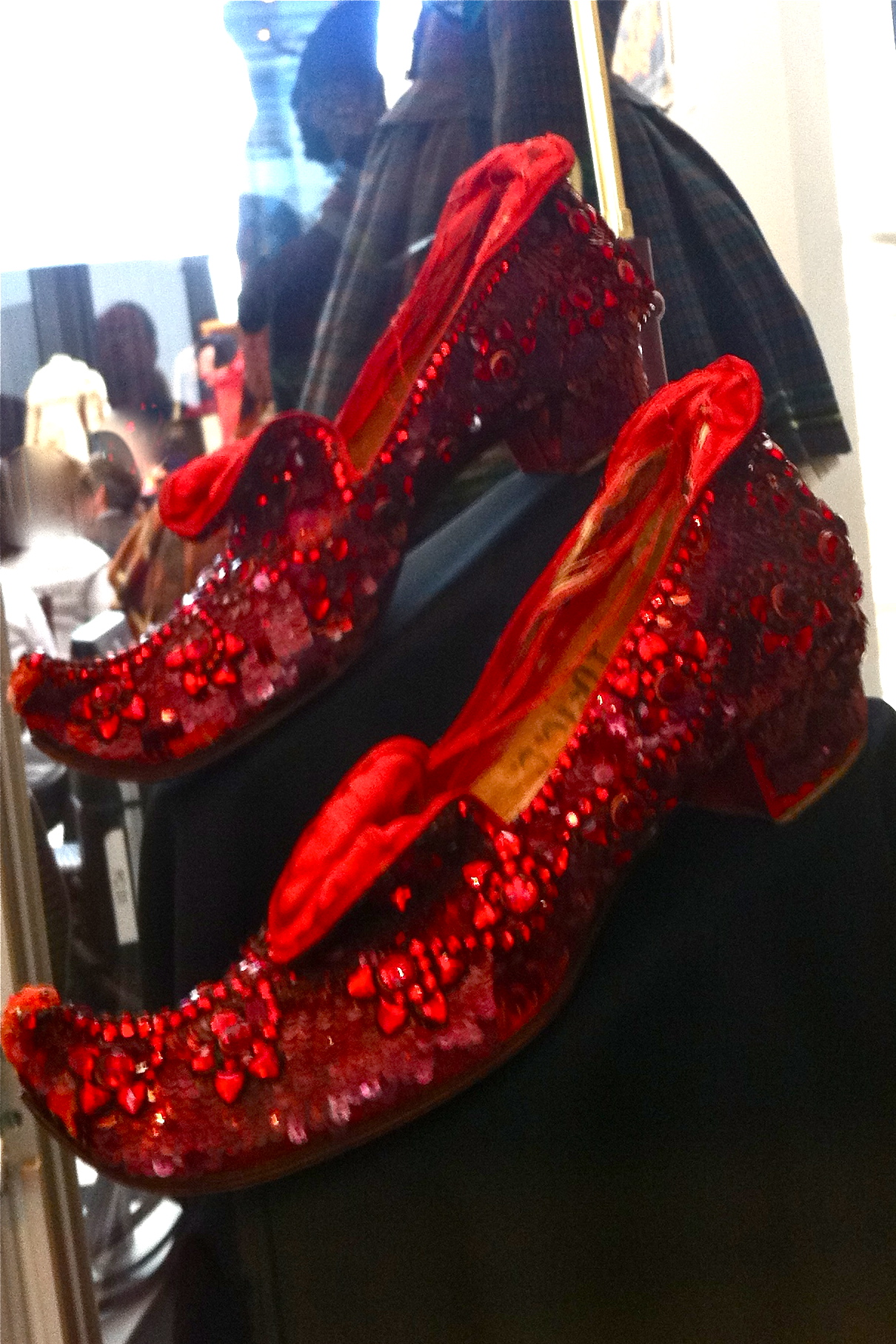 Photo of the original curled-toe "Arabian" Ruby slippers designed by Gilbert Adrian and worn by Judy Garland in costume tests for The Wizard of Oz on display in the Paley Center for Media in Beverly Hills. Part of the collection of Debbie Reynolds that sold at auction on June 18, 2011.